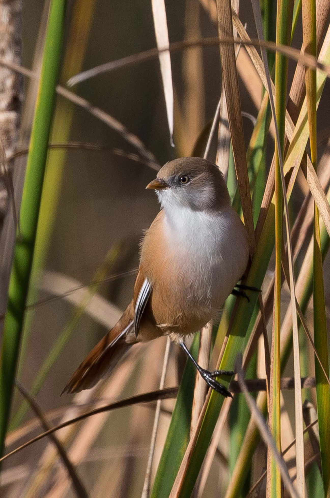 A female Bearded Reedling at Oare Marshes Nature Reserve, Kent, England.